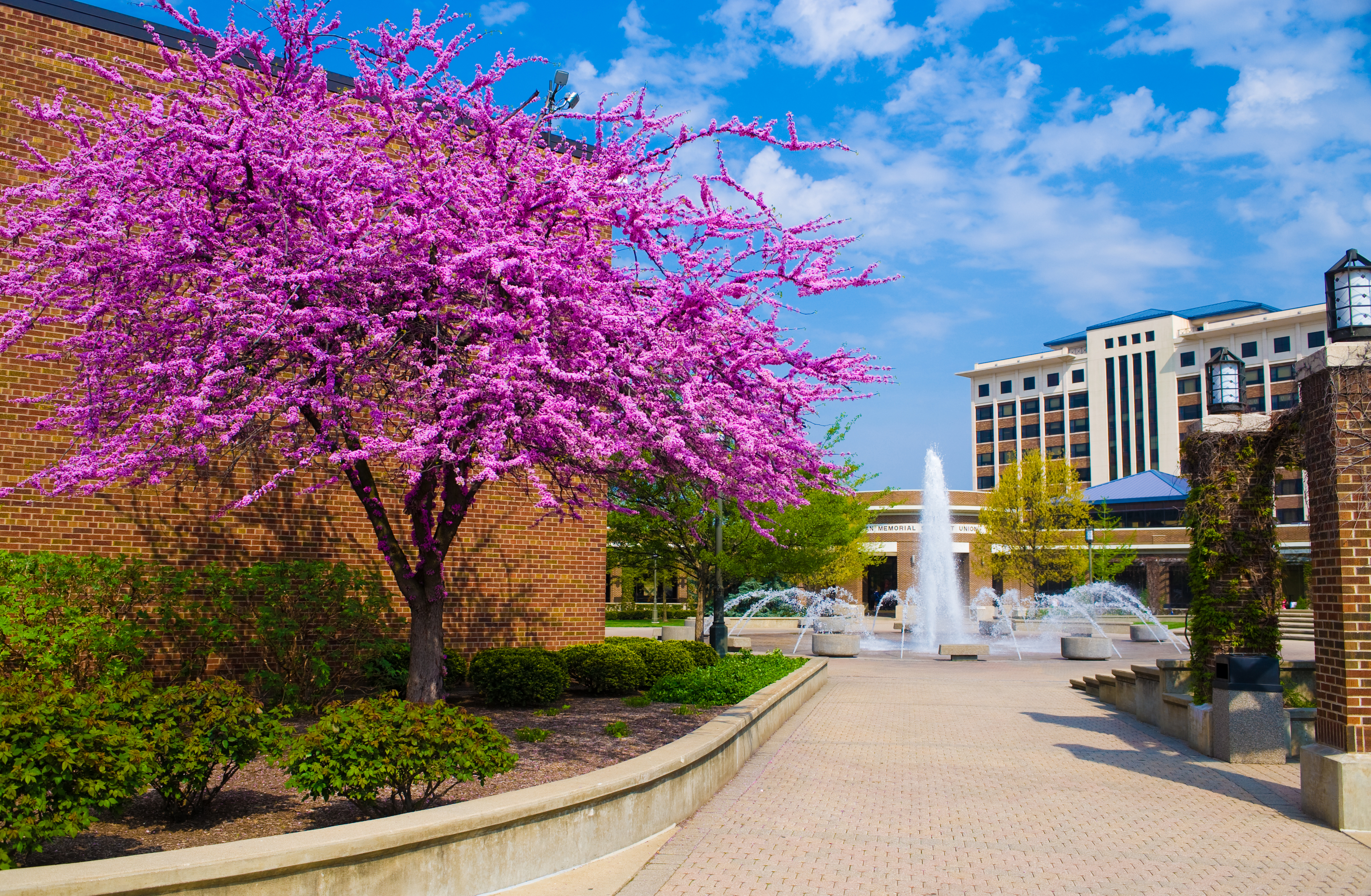 The fountain at Dede Plaza on the campus of Indiana State University.